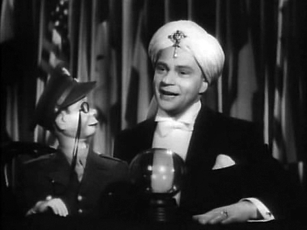 Cropped screenshot of Edgar Bergen with Charley McCarthy from the film Stage Door Canteen.